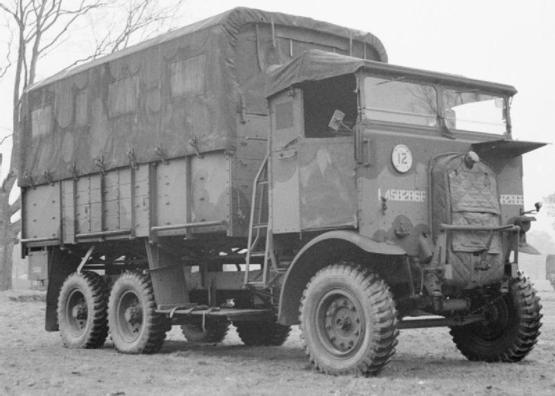 The British Army in the United Kingdom 1939-45 Leyland Retriever 'Type H' lorry.